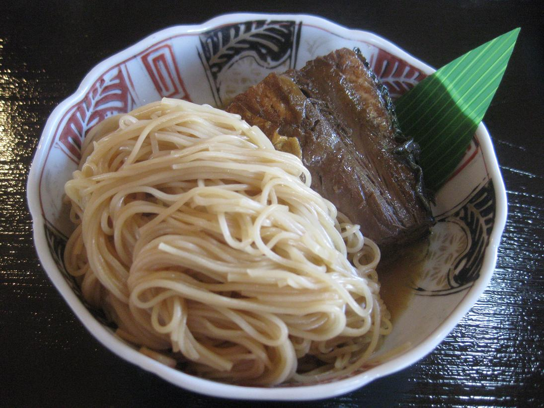 A Japanese regional food, Saba-somen or Yakisaba-somen in Nagahama, Shiga.